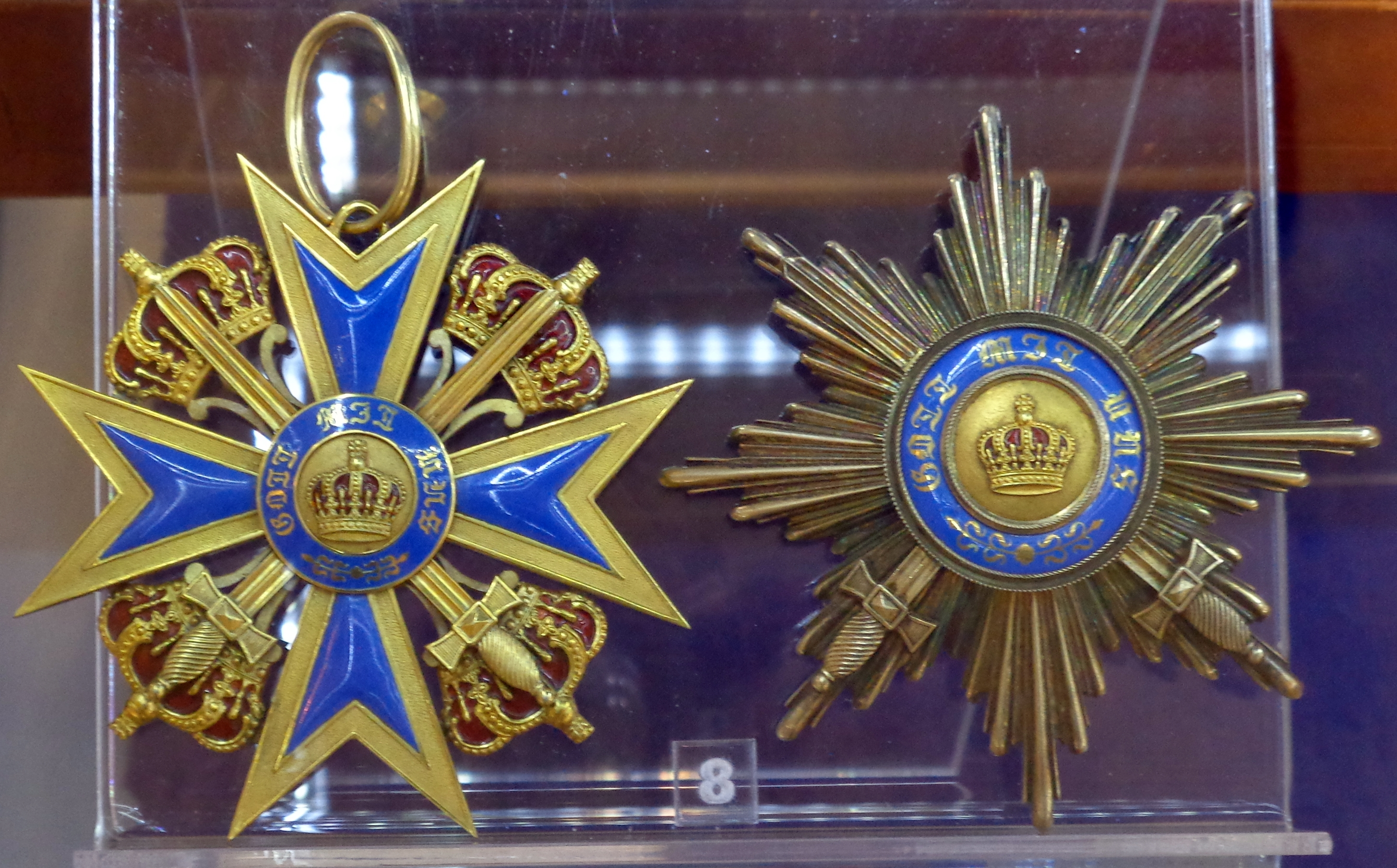 Order of Merit of the Prussian Crown, badge and star of Grand Cross with swords, 1906-1917. Kingdom of Prussia. The exhibition of the Tallinn Museum of Orders of Knighthood, Estonia.